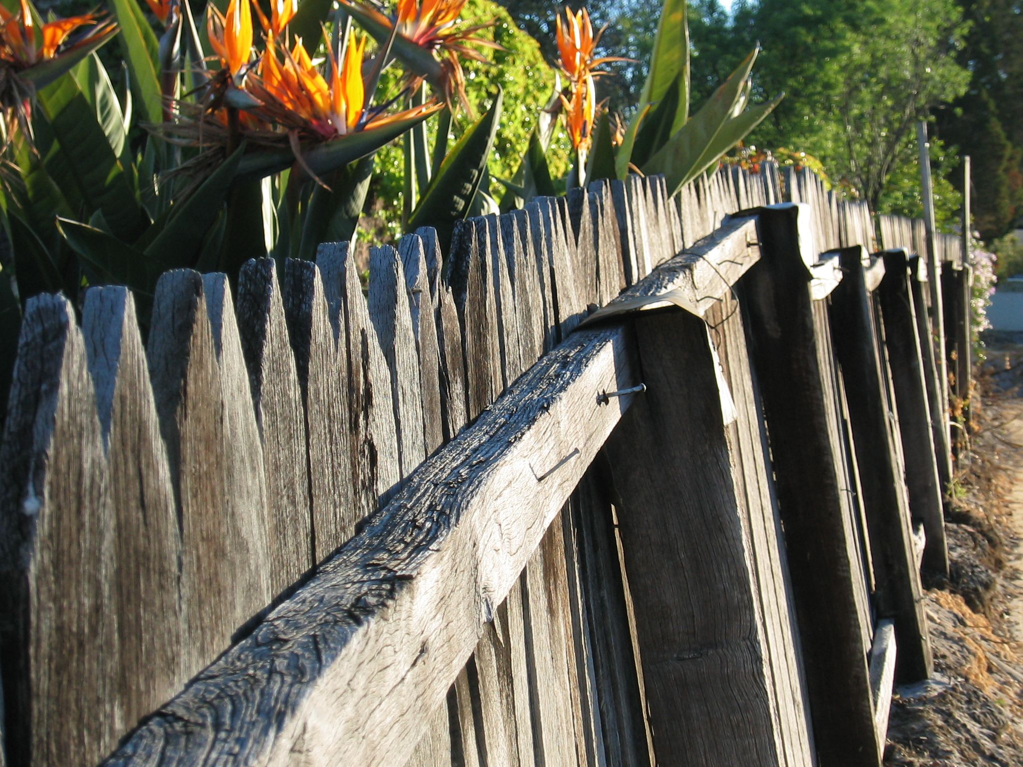 Typical Western Australian jarrah picket fence (circa 1930's) with overhanging strelitzia, Fourth Avenue, Mount Lawley, Western Australia.